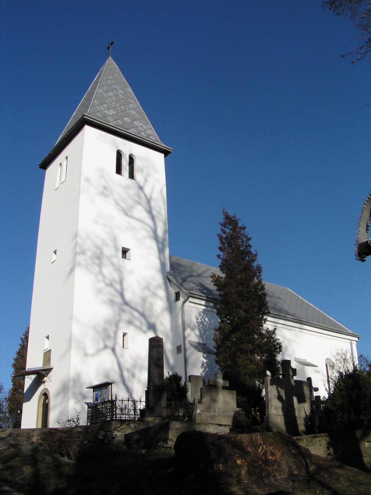 Catholic church in Kotešová.